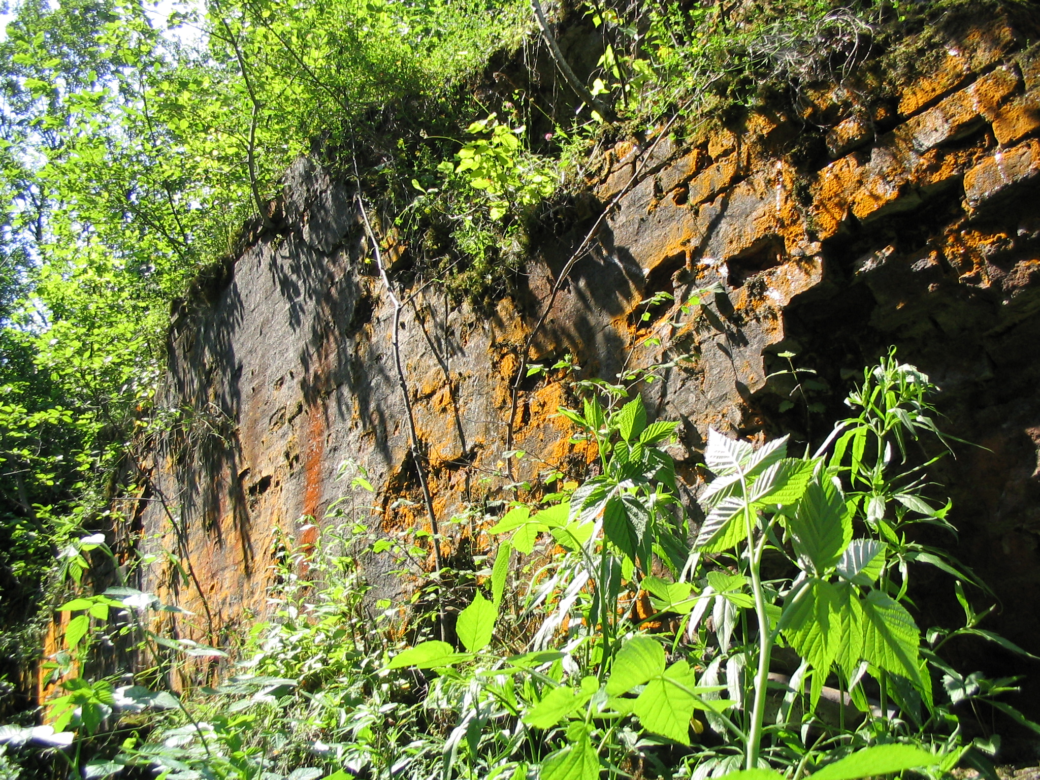 Fort IV "Optyń" Author: Goku122